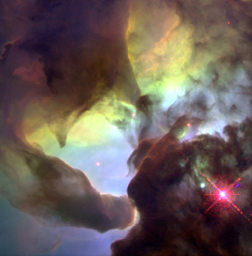 Picture from hubble Giant "Twisters" in the Lagoon Nebula